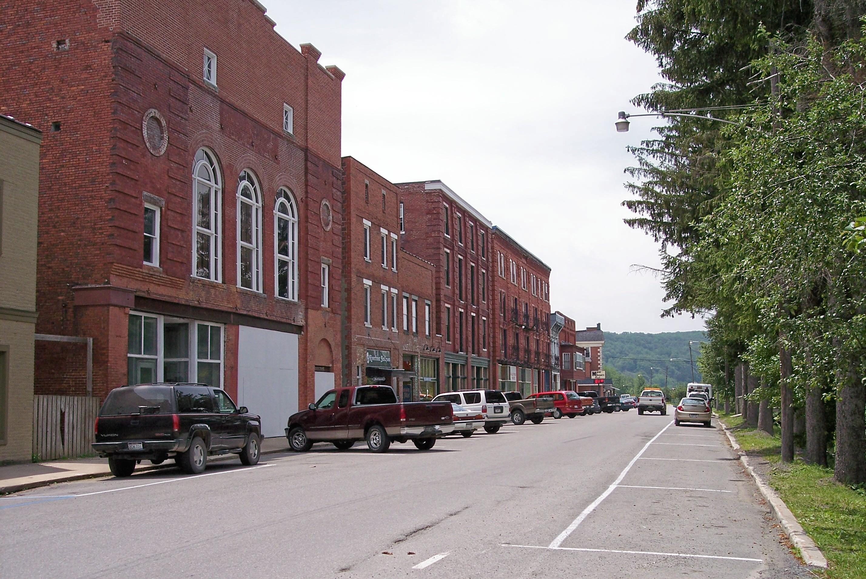 East Avenue in downtown Thomas, West Virginia